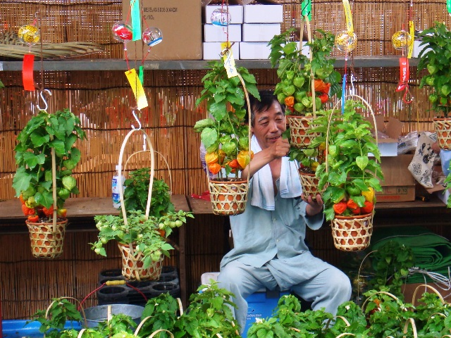 "Hozuki" (aka Chinese lantern plant) Fair, yearly held on 9th to 10th of July in and around the premises of Sensōji temple in Asakusa, Asakusa, Events and festivals.